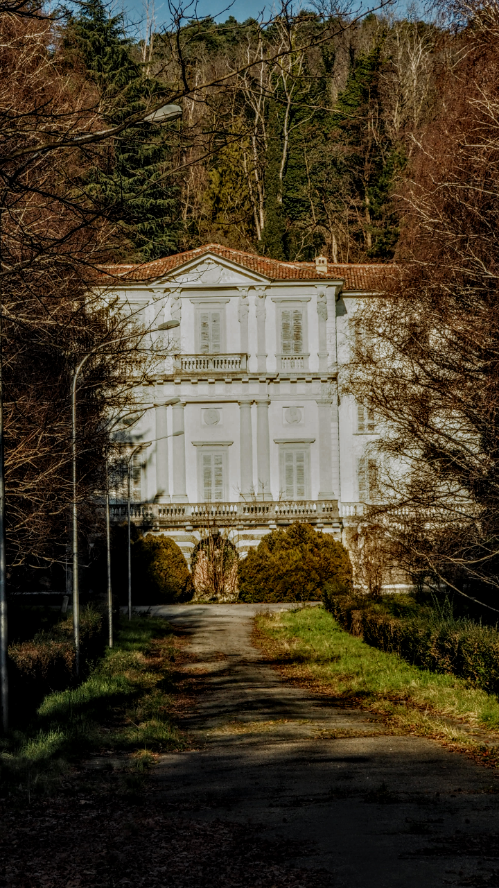 Villa Giovio in Breccia (Como)